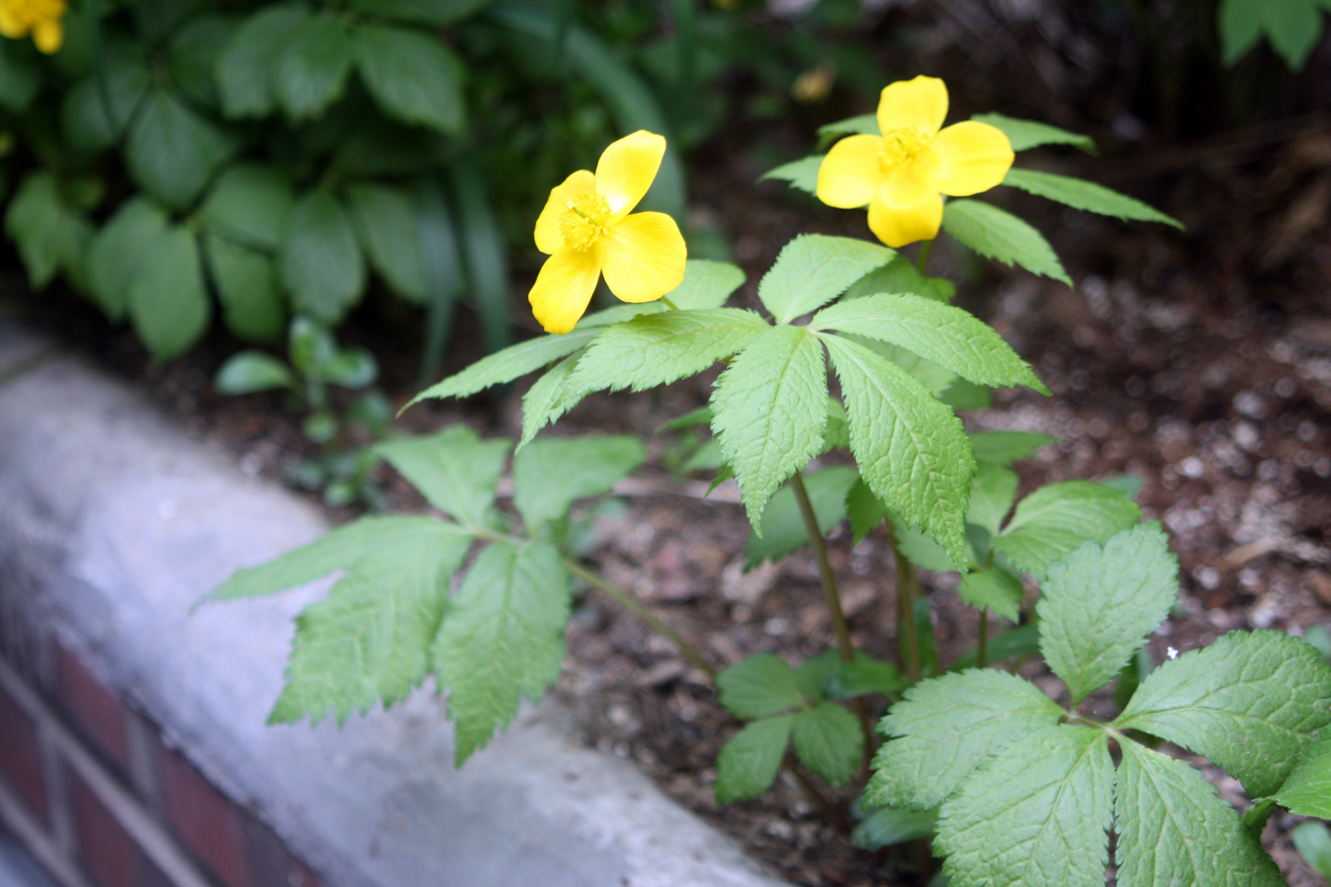 Hylomecon vernalis in Seoul, Korea